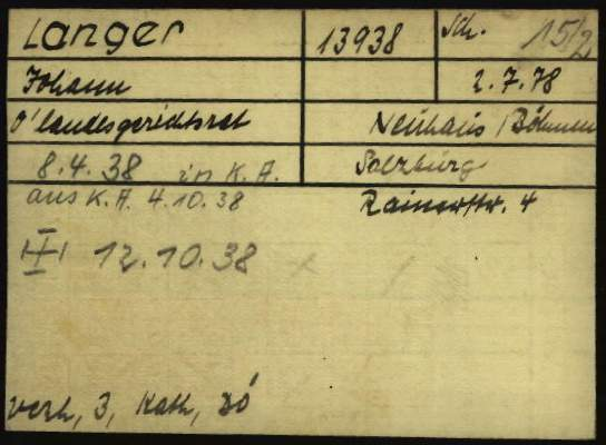 Registration card of Johann Langer as a prisoner at Dachau Nazi Concentration Camp. The penciled cross signals the day of his death.